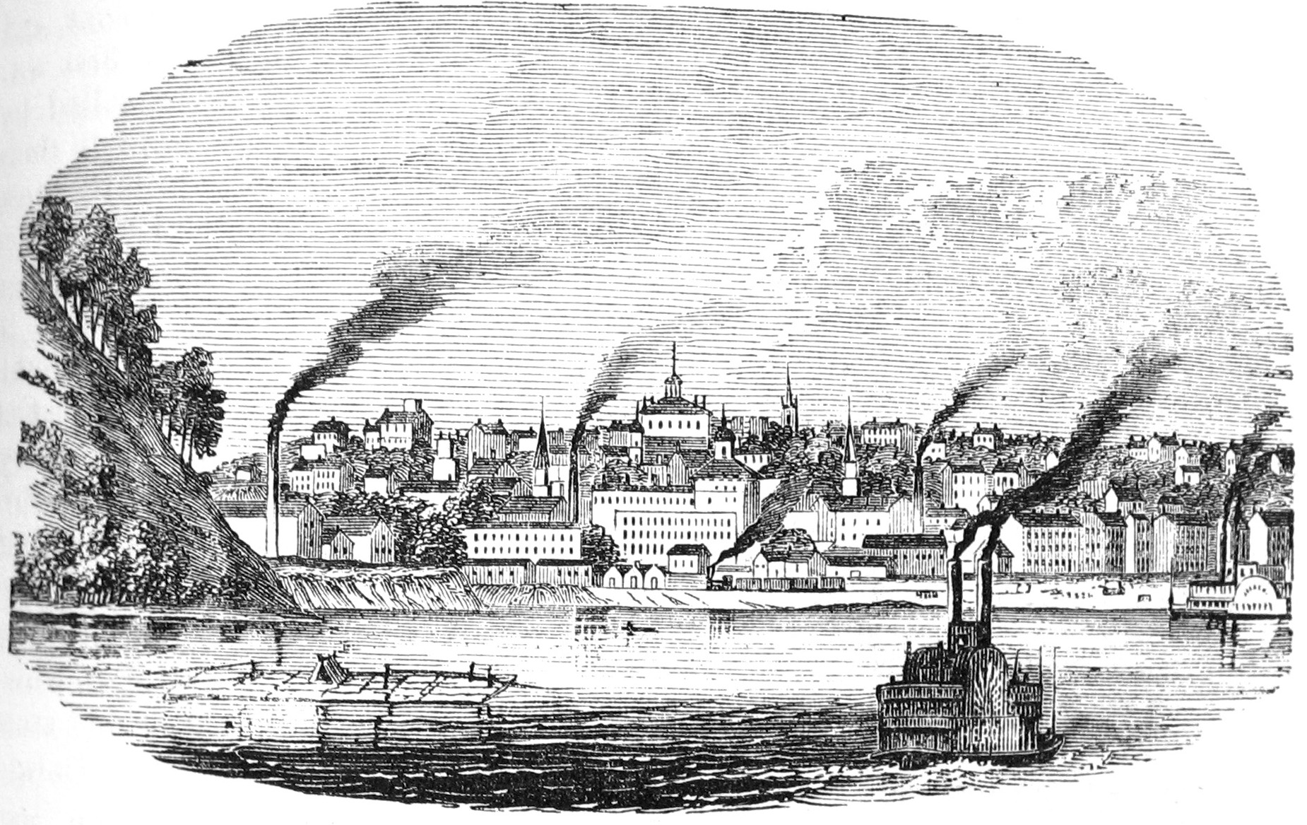 Burlington, Iowa engraving